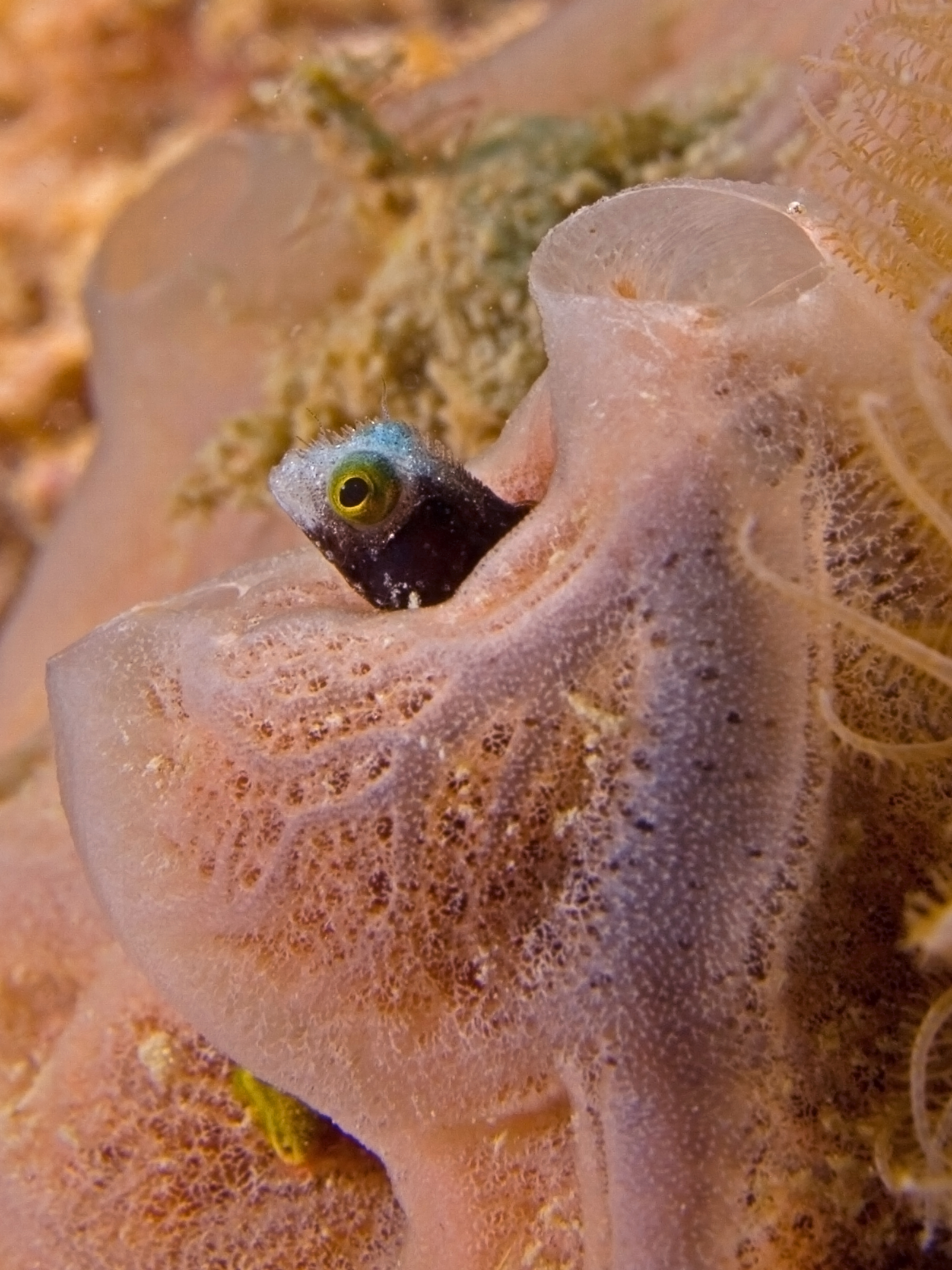 Acanthemblemaria spinosa (Spiny Headed Blenny)